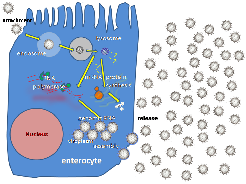 A simplified drawing of the replication cycle of rotaviruses.